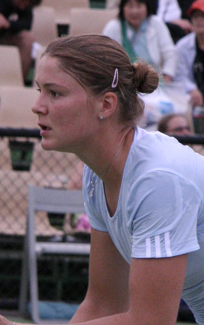 Dinara Safina at the 2007 Australian Open, during her first-round women's doubles match, partnering Katarina Srebotnik (they were seeded 5th).